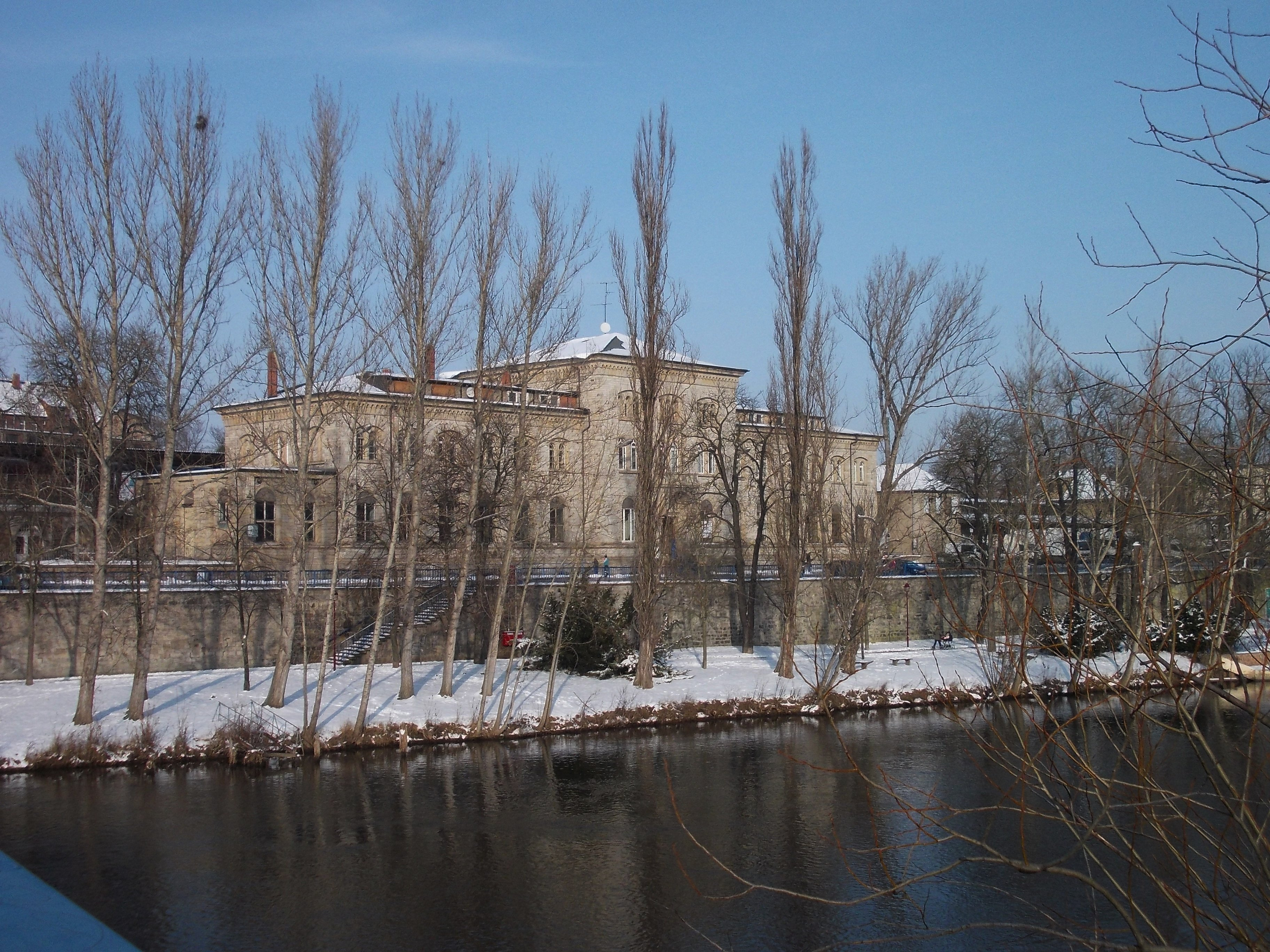 Weissenfels train station with Saale river (district of Burgenlandkreis, Saxony-Anhalt)